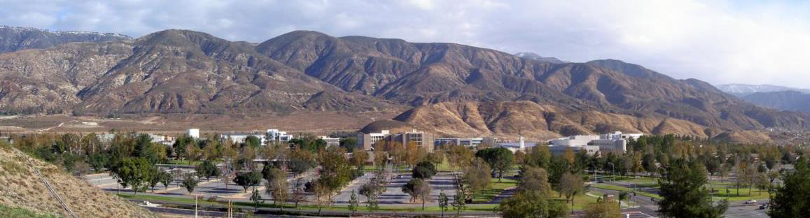 San Bernardino, California